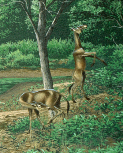 Cropped image of taxon in file name